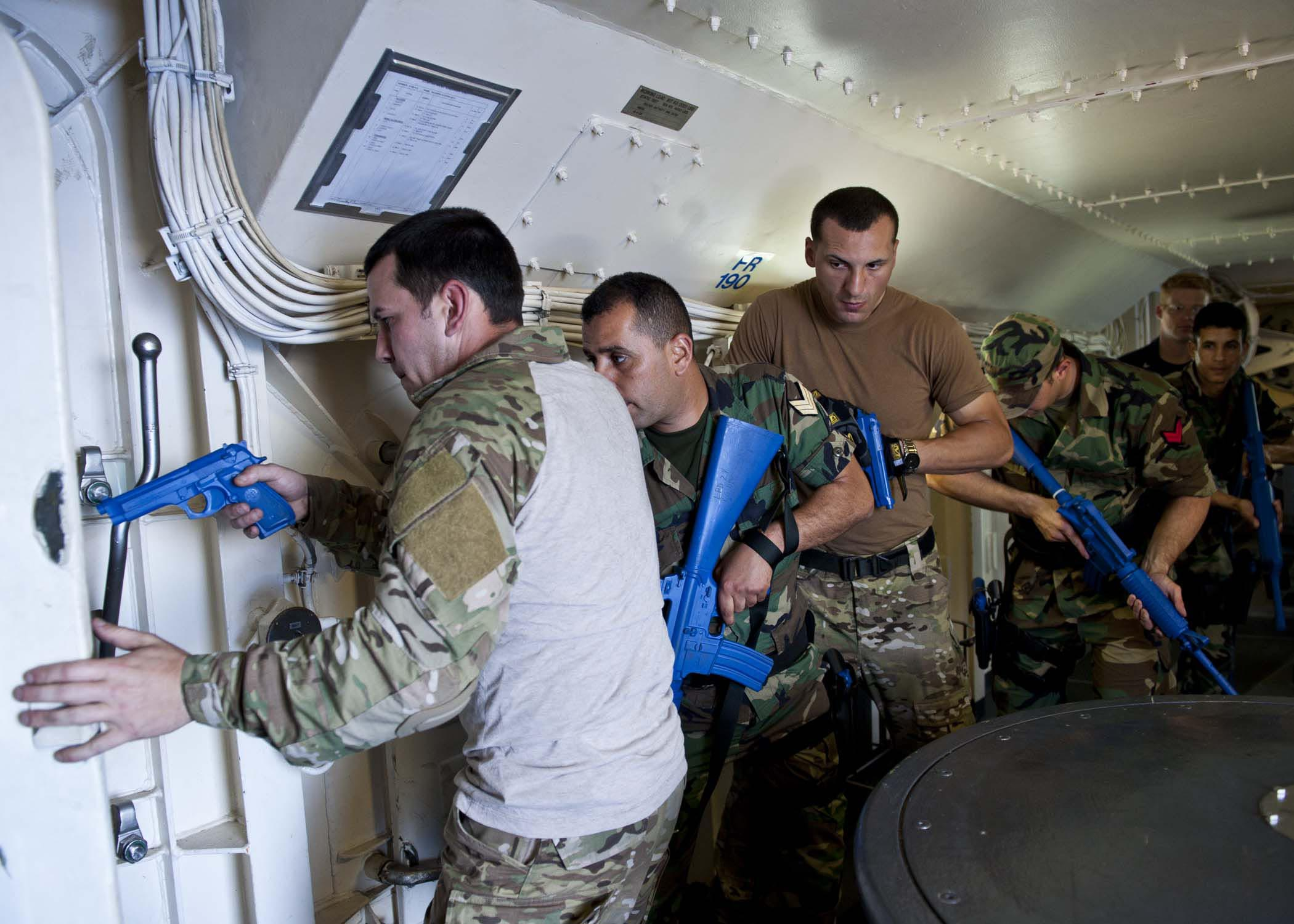 RED SEA (May 12, 2012) U.S. and Lebanese Sailors practice visit, board, search and seizure exercises aboard the amphibious transport dock ship USS New York (LPD 21). New York is part of the Iwo Jima Amphibious Ready Group with the embarked 24th Marine Expeditionary Unit. New York is deployed participating in exercise Eager Lion 2012. Eager Lion is designed to strengthen military-to-military relationships through a joint, whole-of-government, multinational approach to meet current and future complete national security challenges, including 19 nations from five different continents and more than 11,000 participants. (U.S. Navy photo by Mass Communication Specialist 3rd Class Ian Carver/Released) 120512-N-XK513-057 Join the conversation navylive.dodlive.mil